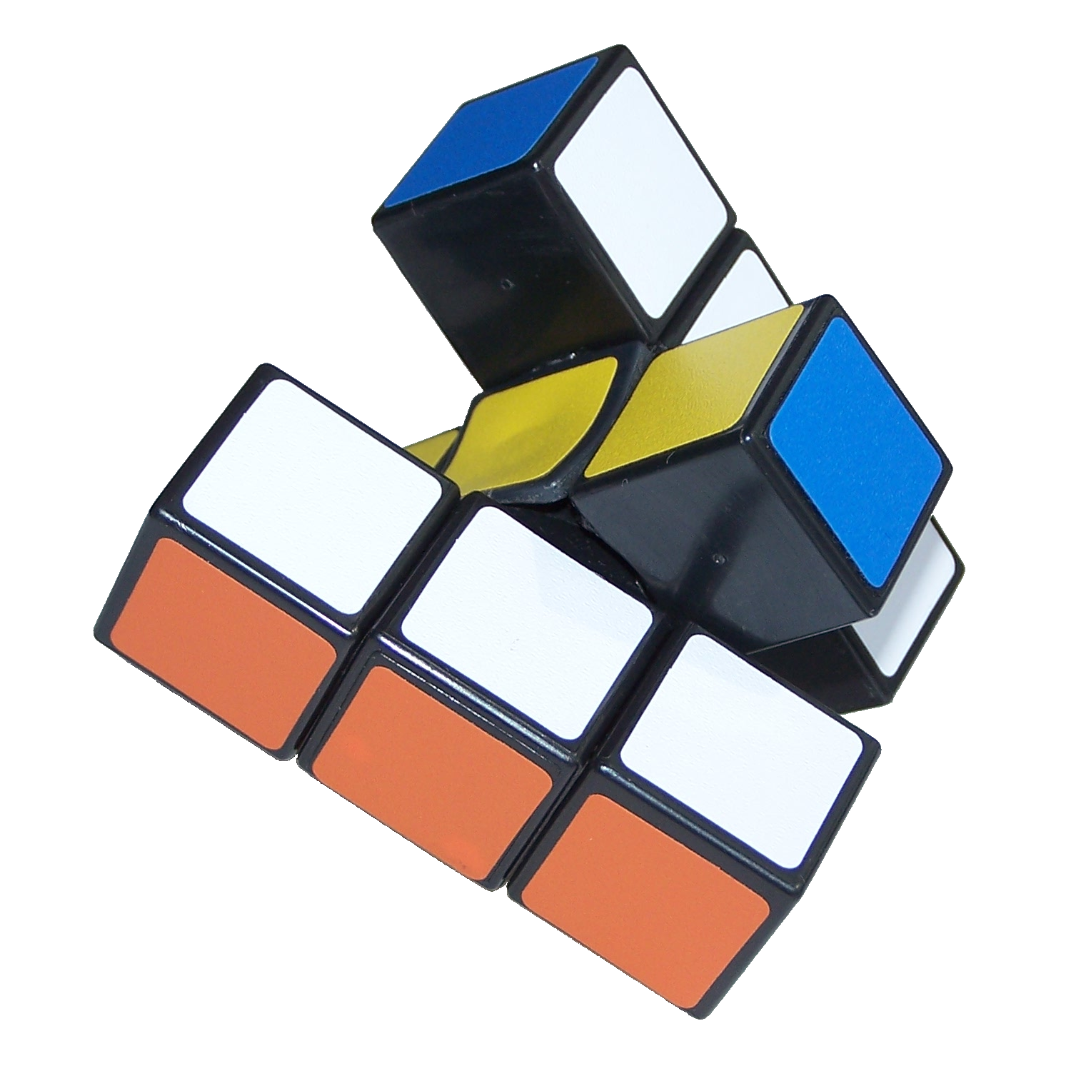 This kind of Rubik's Cube is called Floppy Cube or 3×3×1. You can see it here in the solved state, additional two sides are turned, in order to see the parts of the mechanism of the cube. His mechanism allows to turn the front, the right, the back and the left side, and also the two inner layers 180°. You can them turn 90°, too, but then you can't turn anything else, without turning your side the rest of the 180° (and the two layers, which are parallel to your side). The total number of permutations of the Floppy Cube is 192 and you can it solve always in less or exactly 8 moves.